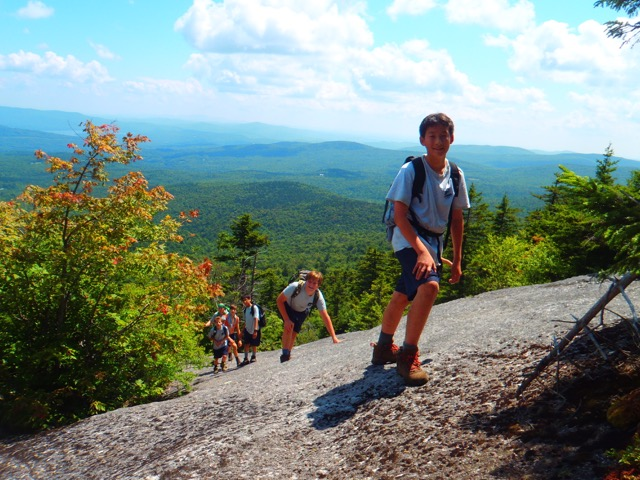 Mowglis Camper hiking in the White Mountains